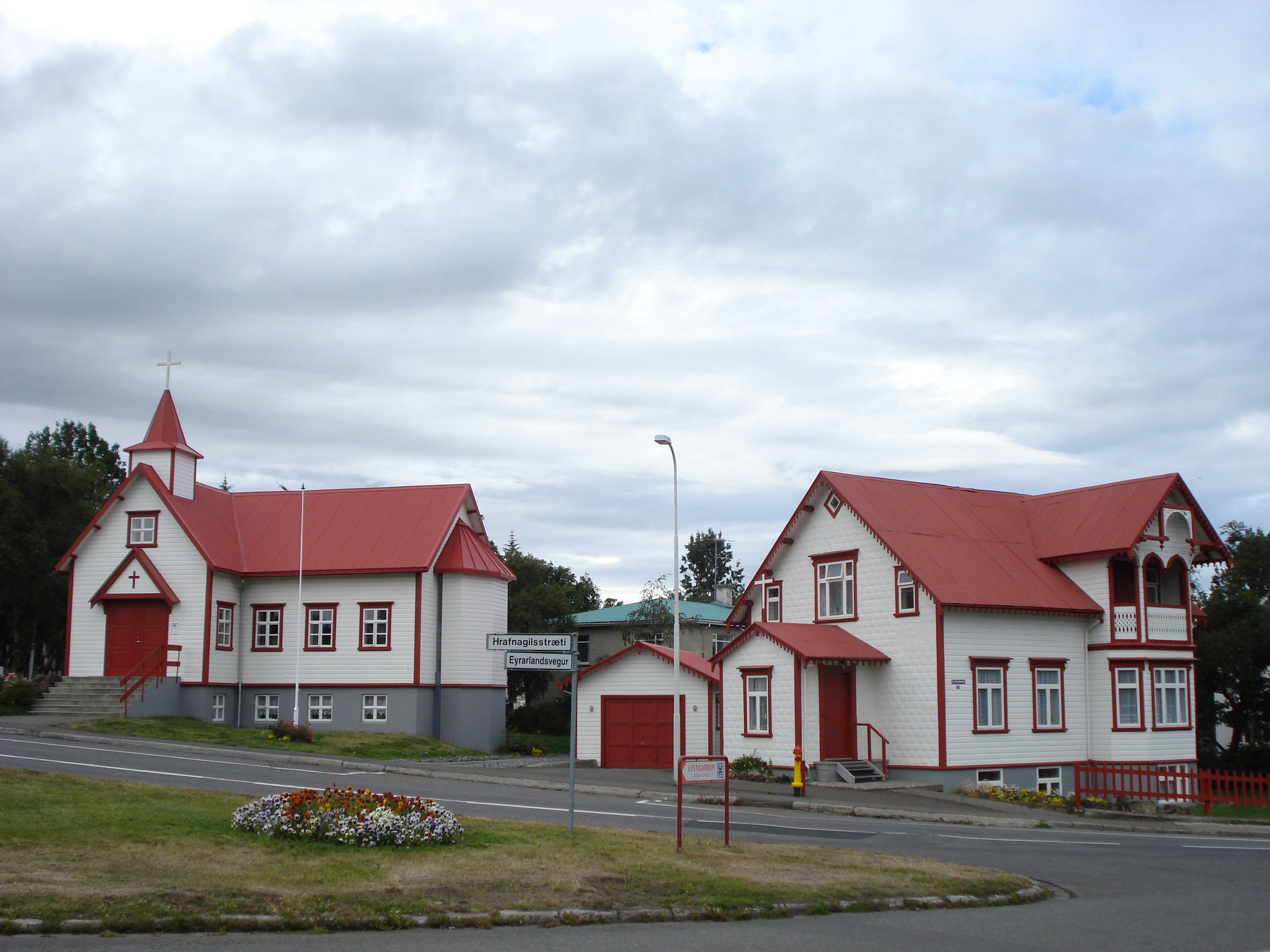 Catholic Curch in Akureyri, Iceland